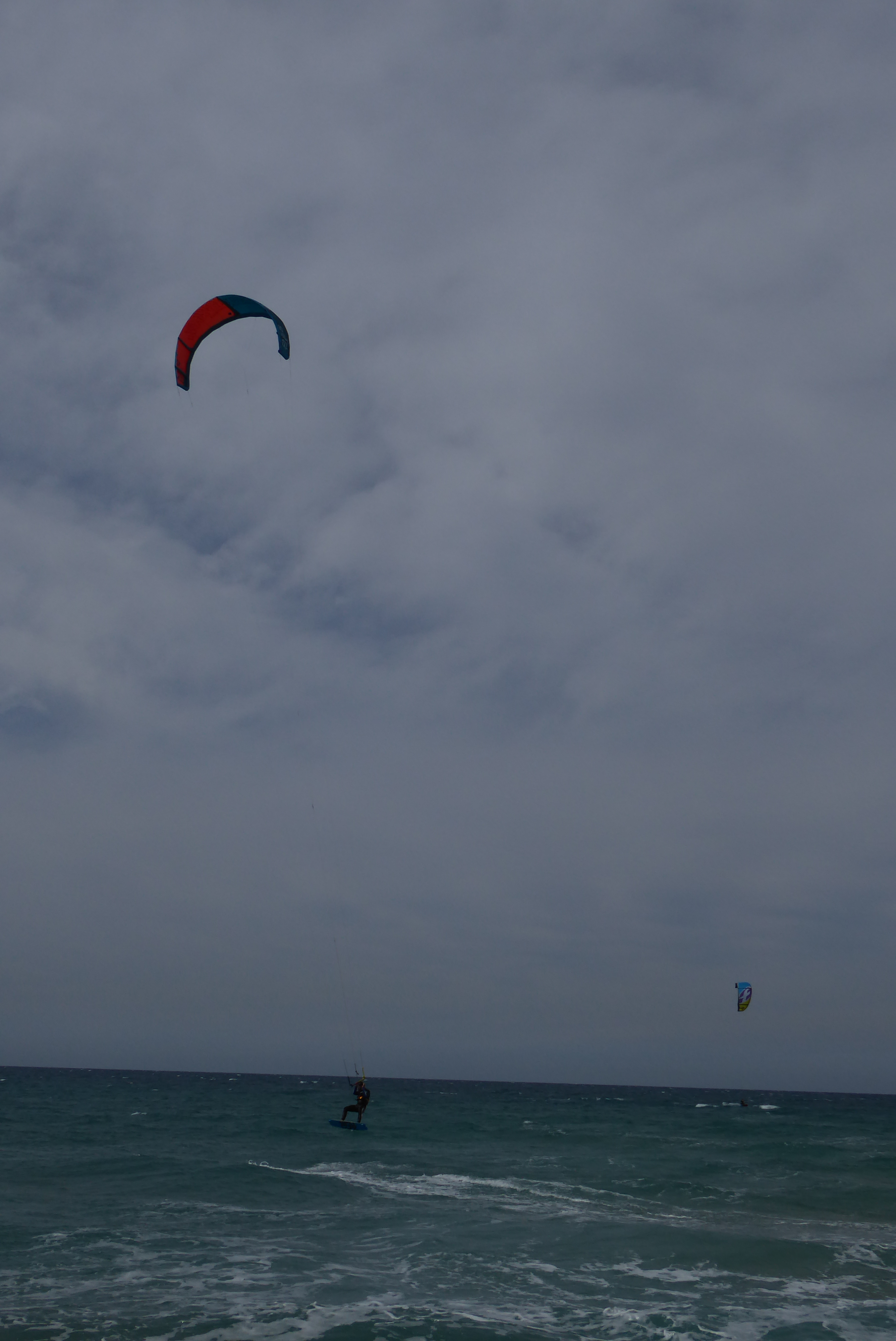 Beaches of Israel